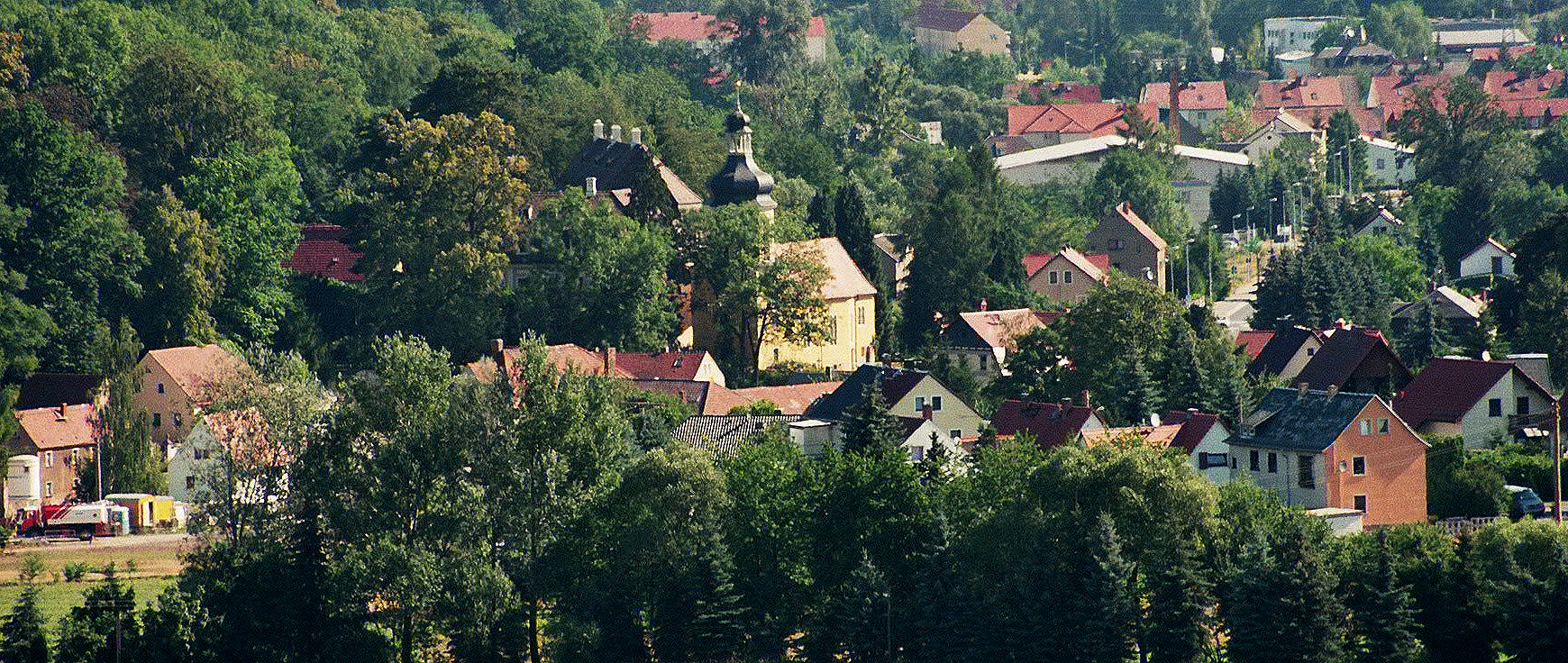 This image shows Zuschendorf in Pirna in Saxony, Germany.